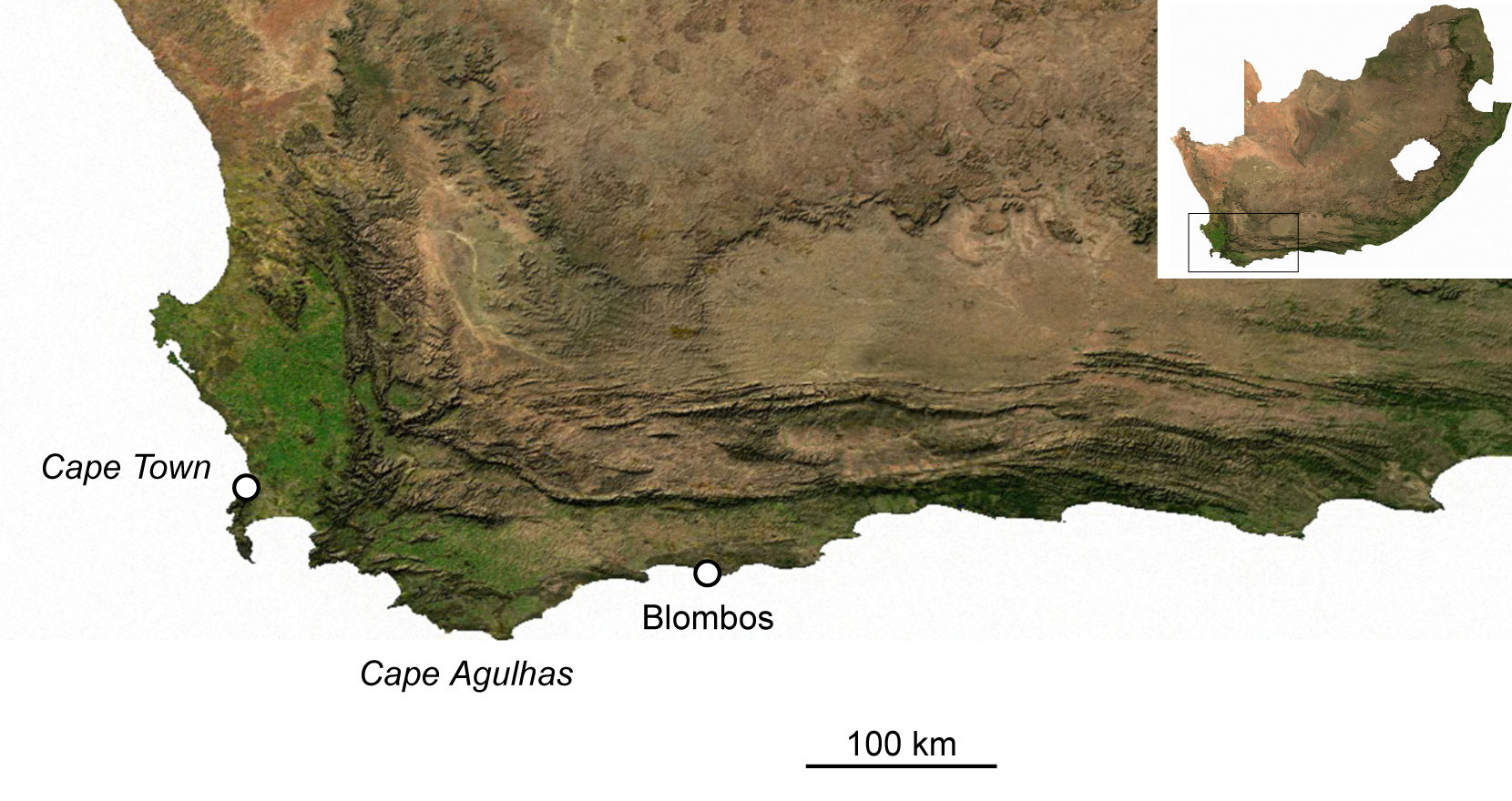 location of Blombos Cave archaeological site, South Africa